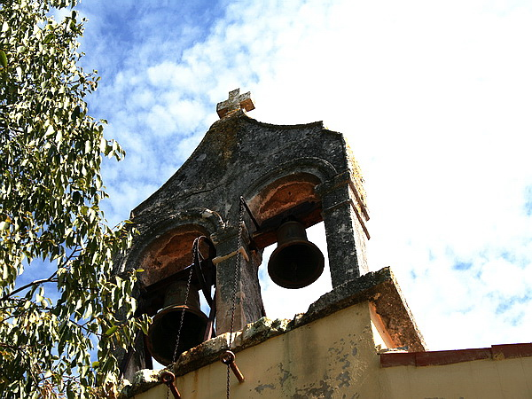 Saint Jerome church from the early 13th century, in the village of Muntic, in Istria.